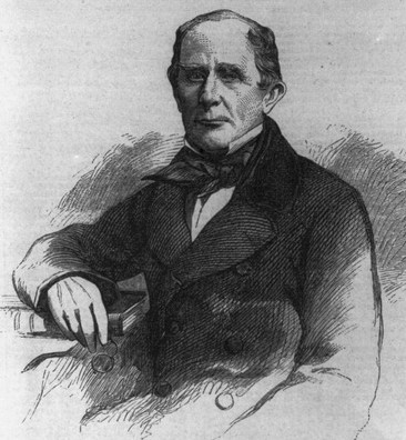 Picture of William Bradford Reed